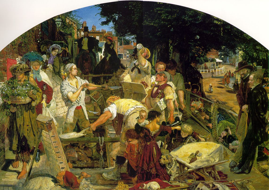 Oil on canvas. Original in the Manchester City Art Galleries